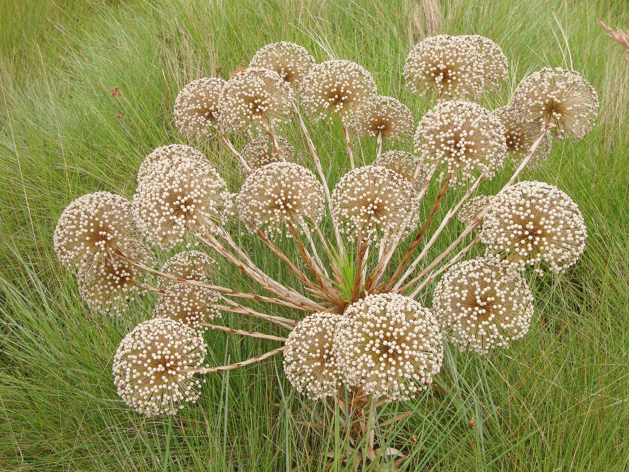 Flowering plant of the genus Paepalanthus in Serra do Cipó National Park